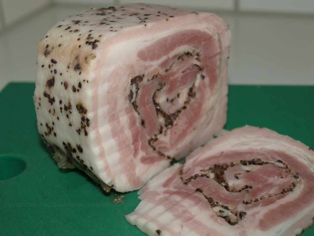 Rullsylta(aka nasty sushi bacon) - Swedish food Roll Sylta - traditional Swedish food for Christmas dinner.